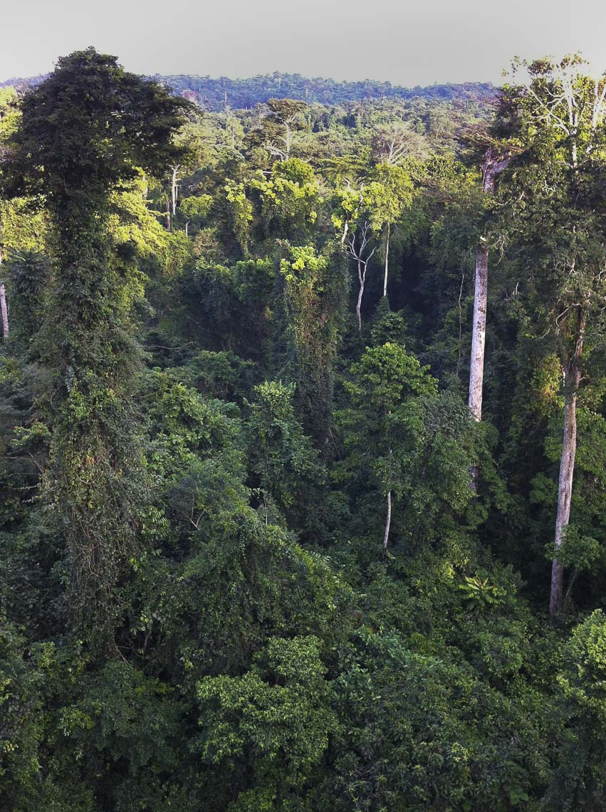 Iphone photo